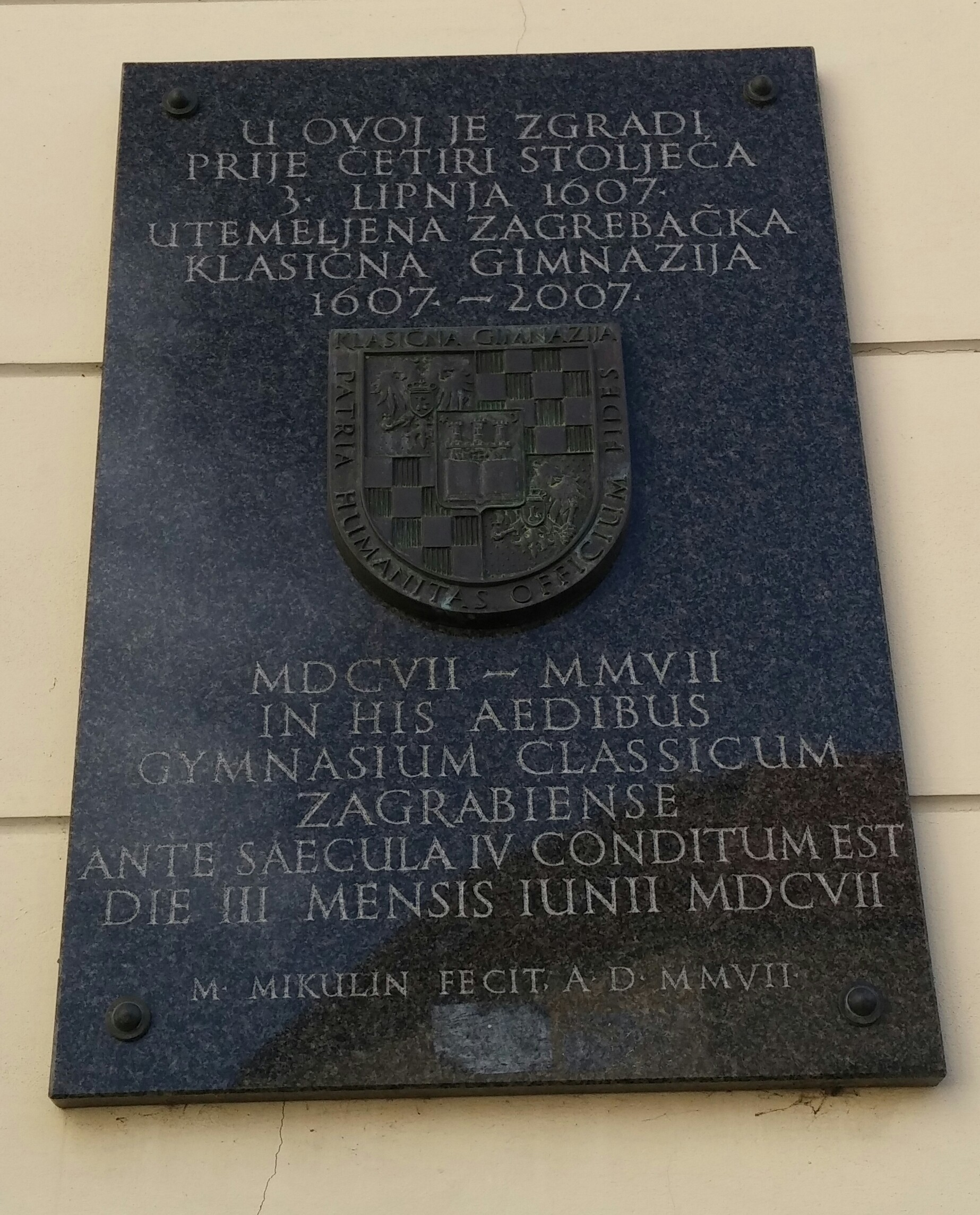 A plaque honoring the 400th anniversary of the foundation of the Classical Gymnasium in Zagreb.